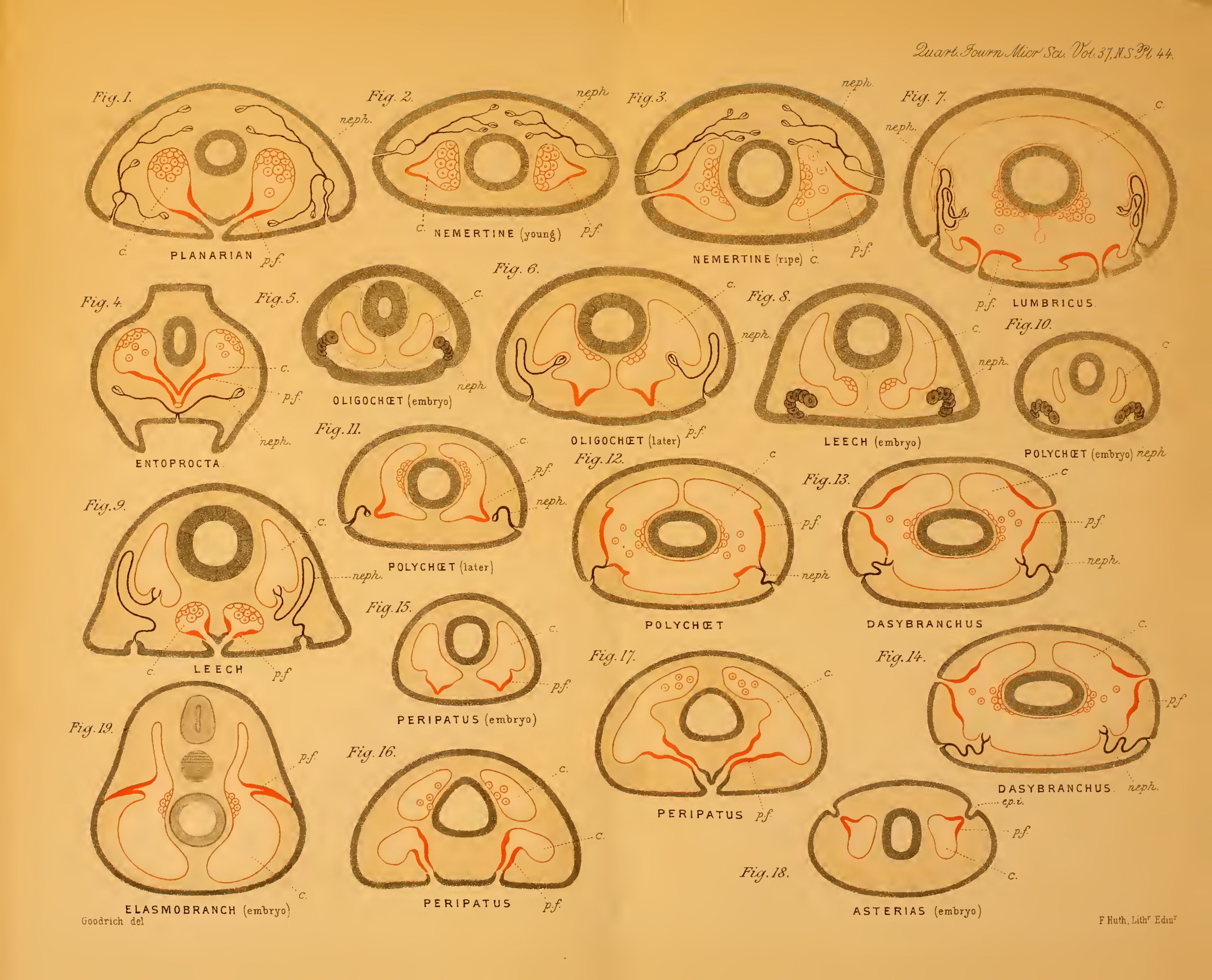 Illustrations of the Coelom, Genital Ducts, and Nephridia of various species. Plate 44 from On the coelom, genital ducts, and nephridia.Quarterly journal of microscopical science Vol 37 Pages 477-510